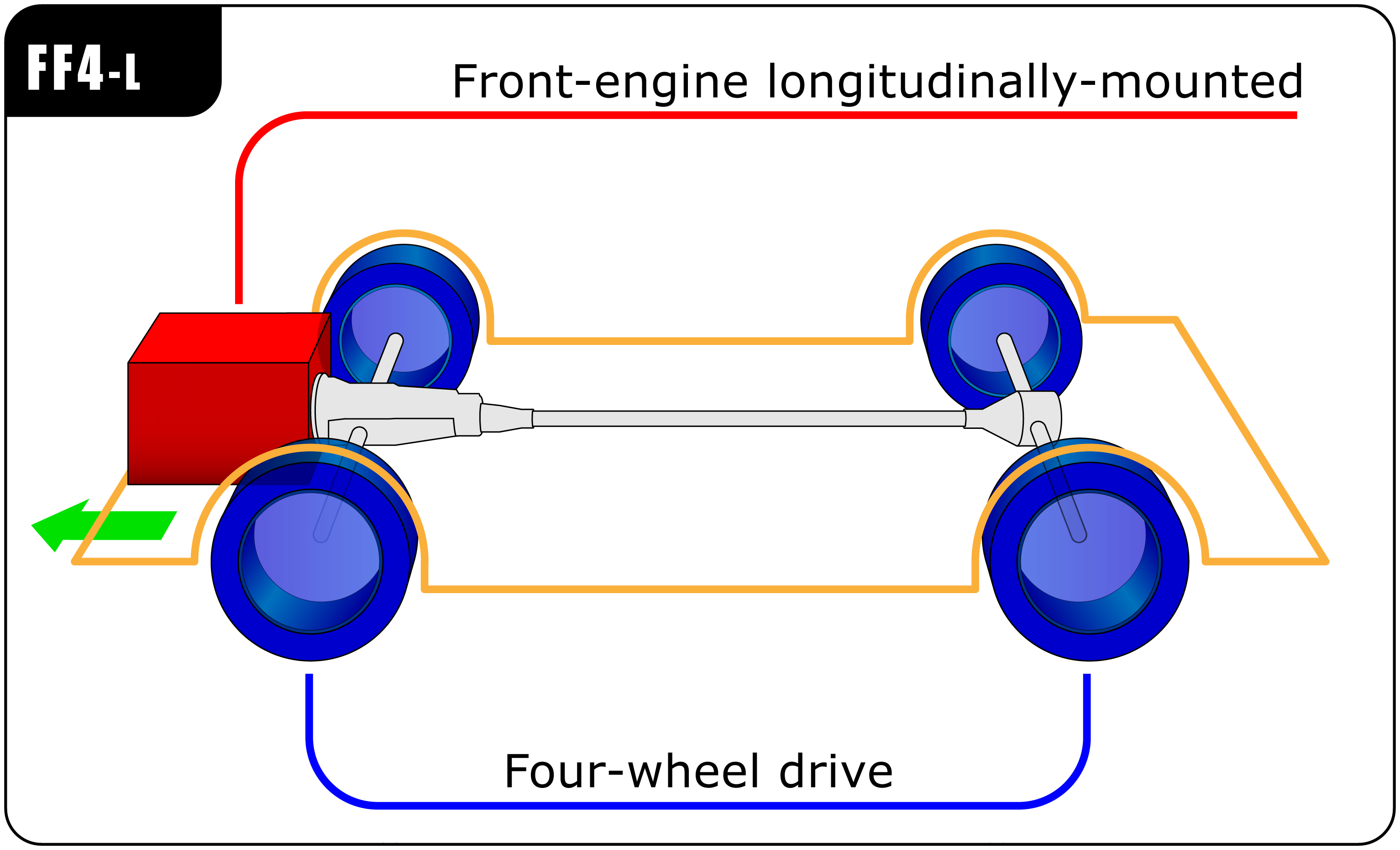 Vehicle engine and drive wheel placement diagrams (German versions coming soon)